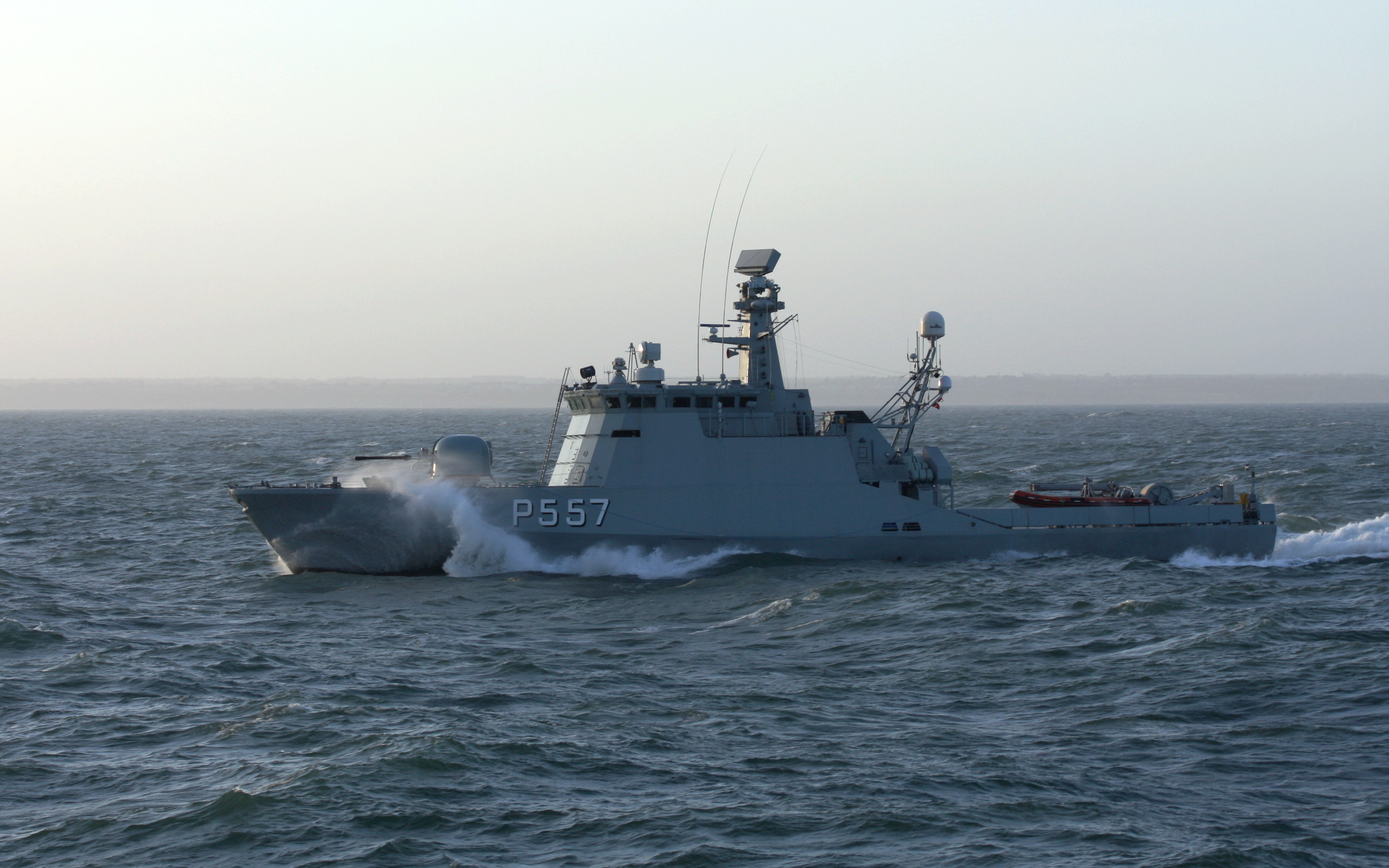 HDMS Glenten (P557) in the english channel